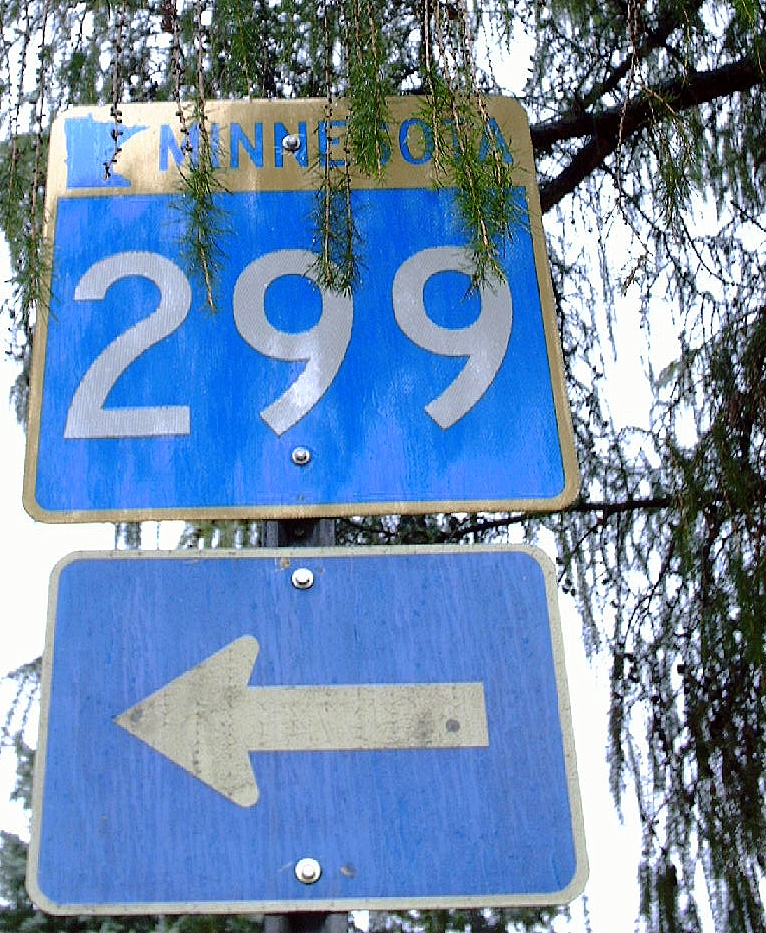 Photo I took in 2006 of a Minnesota State Highway 299 sign in Faribault, Minnesota. CC & GFDL.